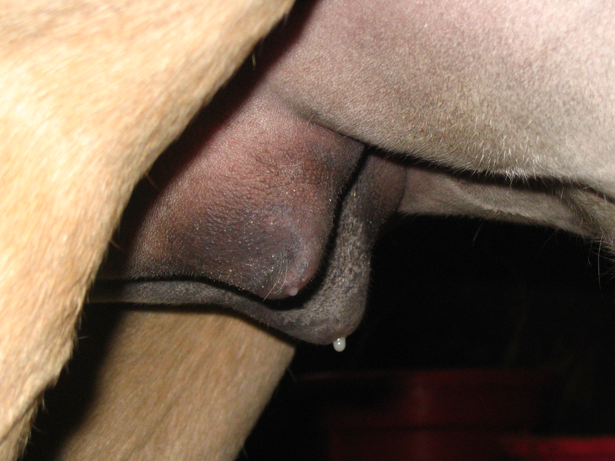 Mara lactating just minutes before Bear's birth. I release all rights to this image and grant it into the public domain. Attribution is not required.